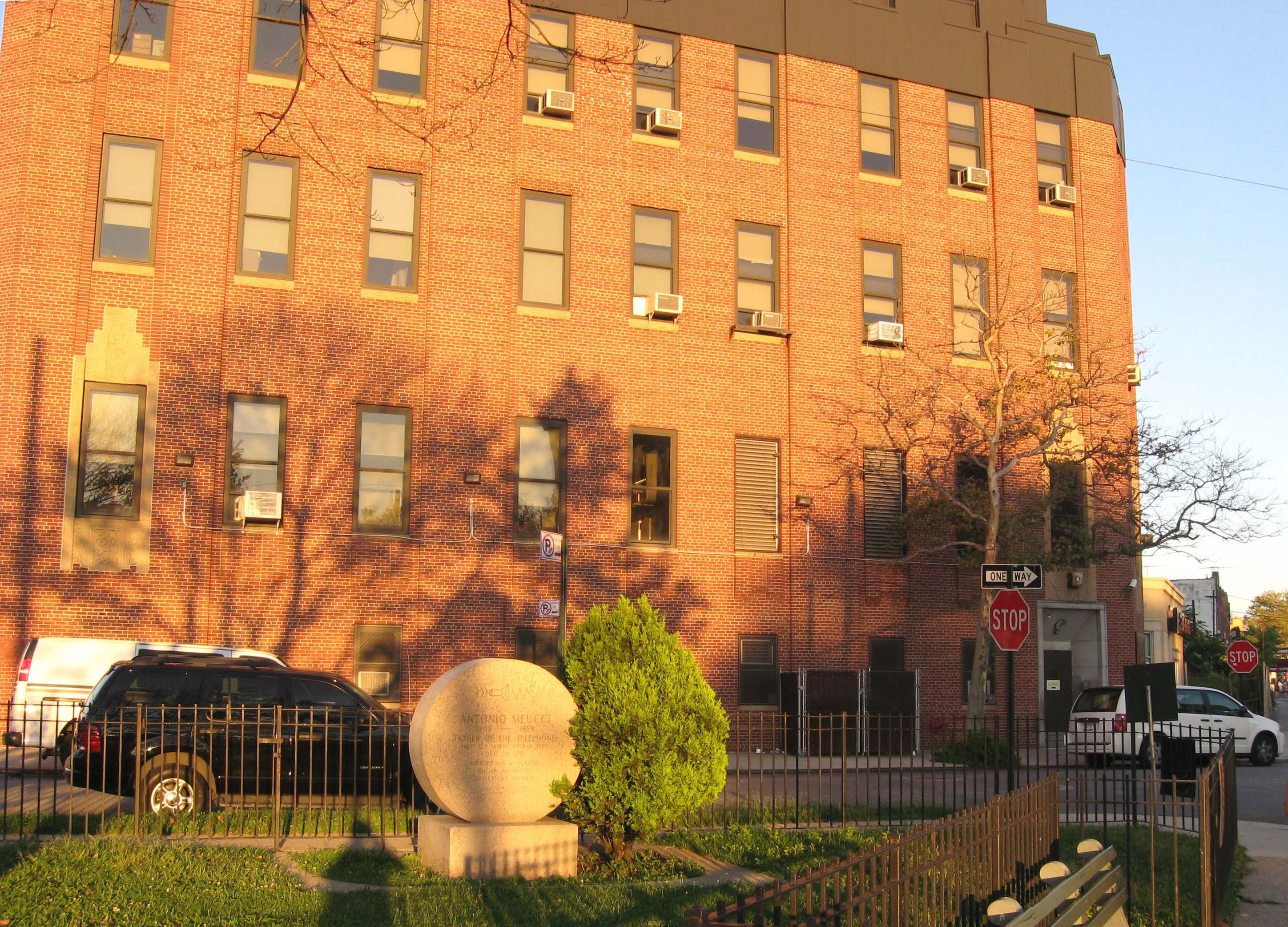 Looking east at New York Telephone Verizon telephone exchange building on a sunny late afternoon in Gravesend, Brooklyn with photographer's shadow.